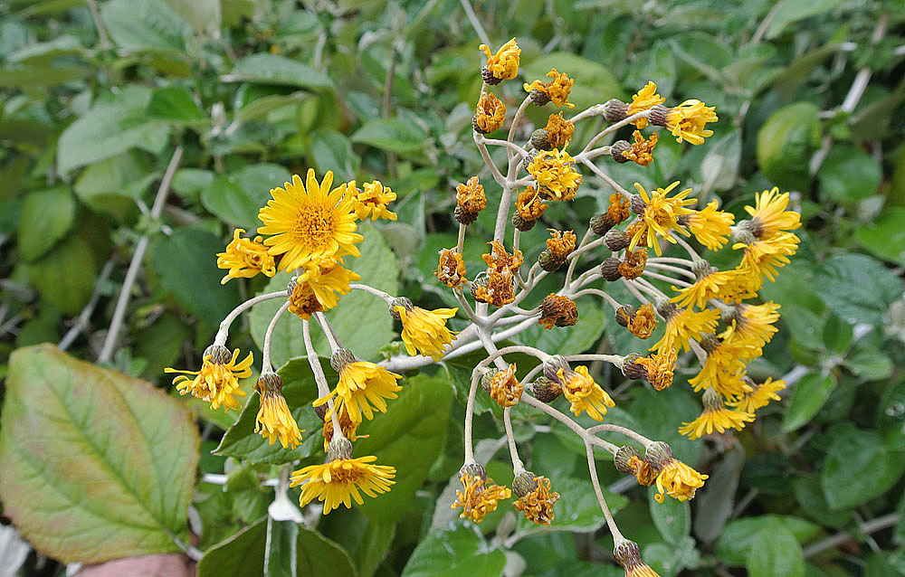 Native to the Andes of Ecuador and adjacent Colombia. UC Berkeley Botanical Gardens.